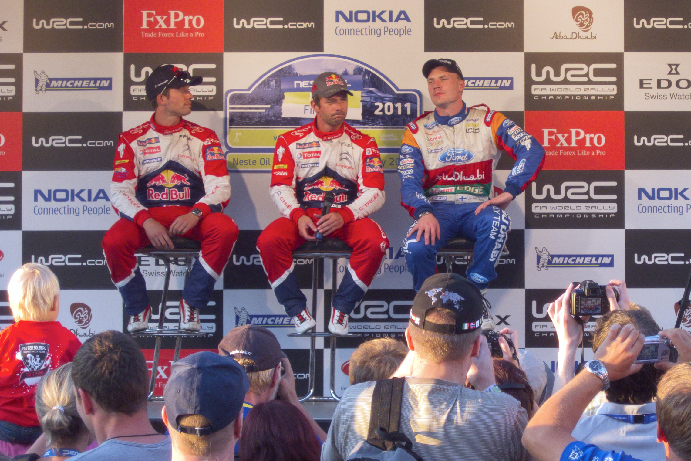 Sébastien Ogier, Sébastien Loeb and Jari-Matti Latvala at the end-of-day interview during day one of 2011 Rally Finland.